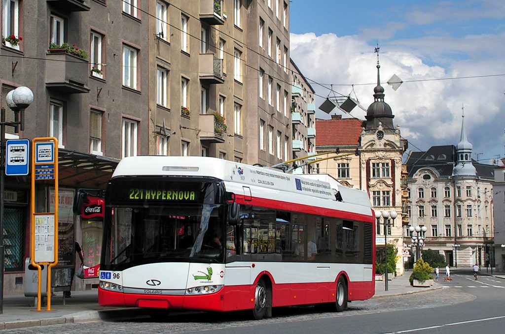 Solaris Trollino 12AC II trolleybus with Diesel generator in Opava, Czech Republic.